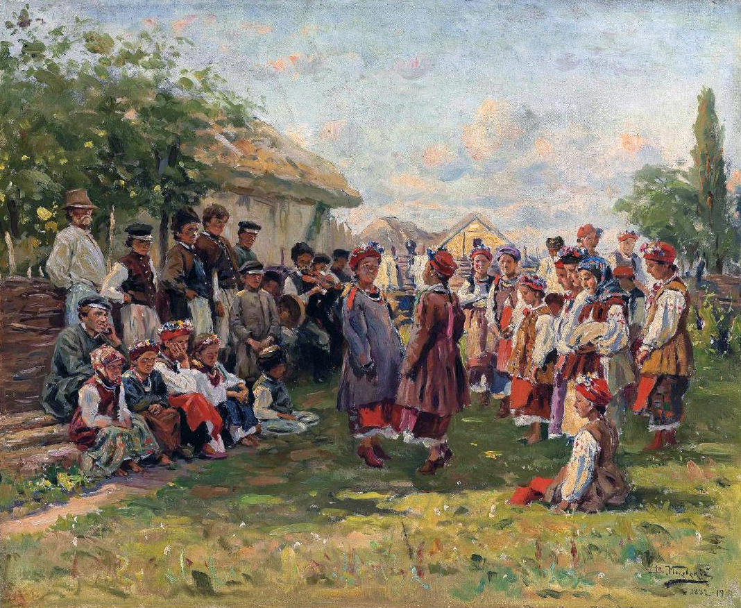 Festival in a Ukrainian village